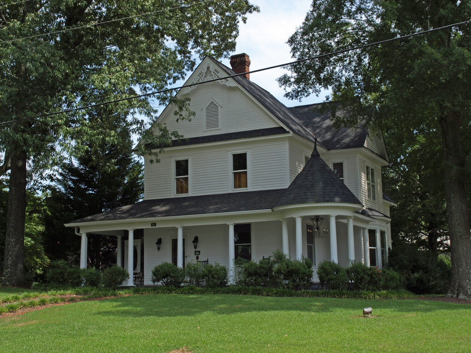 The Rambow-Abt House in Cullman, Alabama, listed on the Alabama Register of Landmarks and Heritage